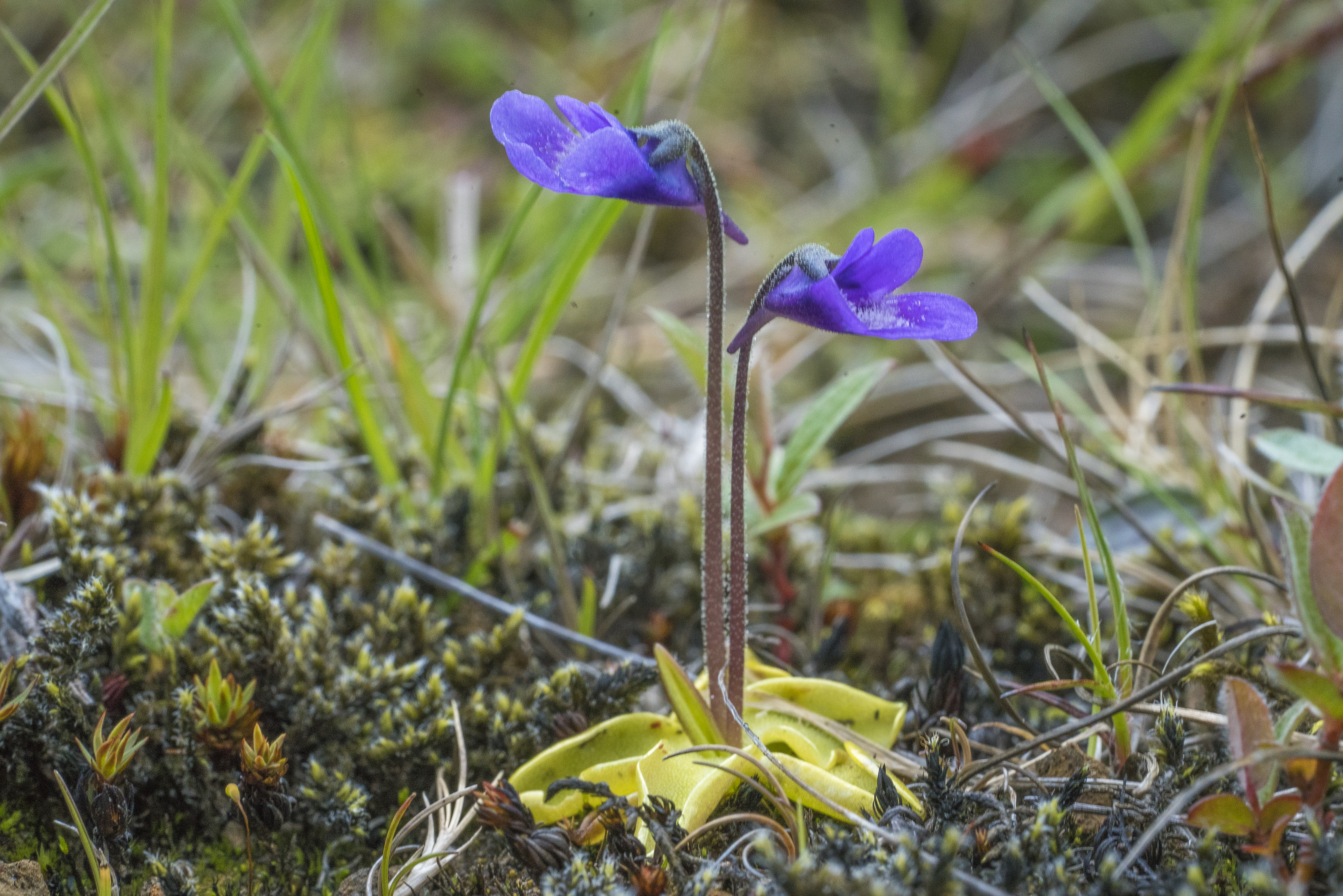 The common butterwort Pinguicula vulgaris,(Iceland)